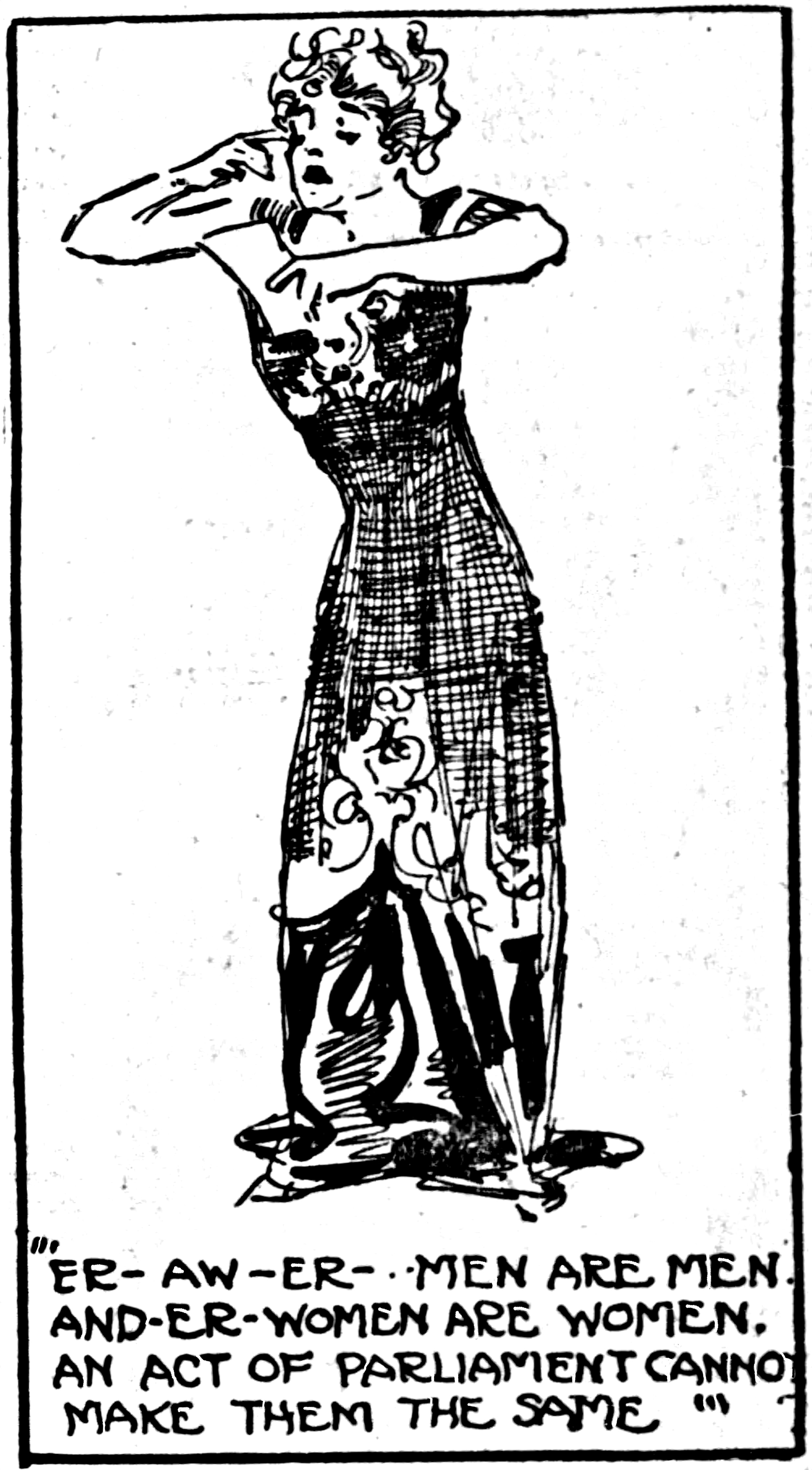 Ethel Annakin Snowden mocking Rowland Baring, 2nd Earl of Cromer, as drawn and reported by journalist Marguerite Martyn for the St. Louis Post-Dispatch in 1910.